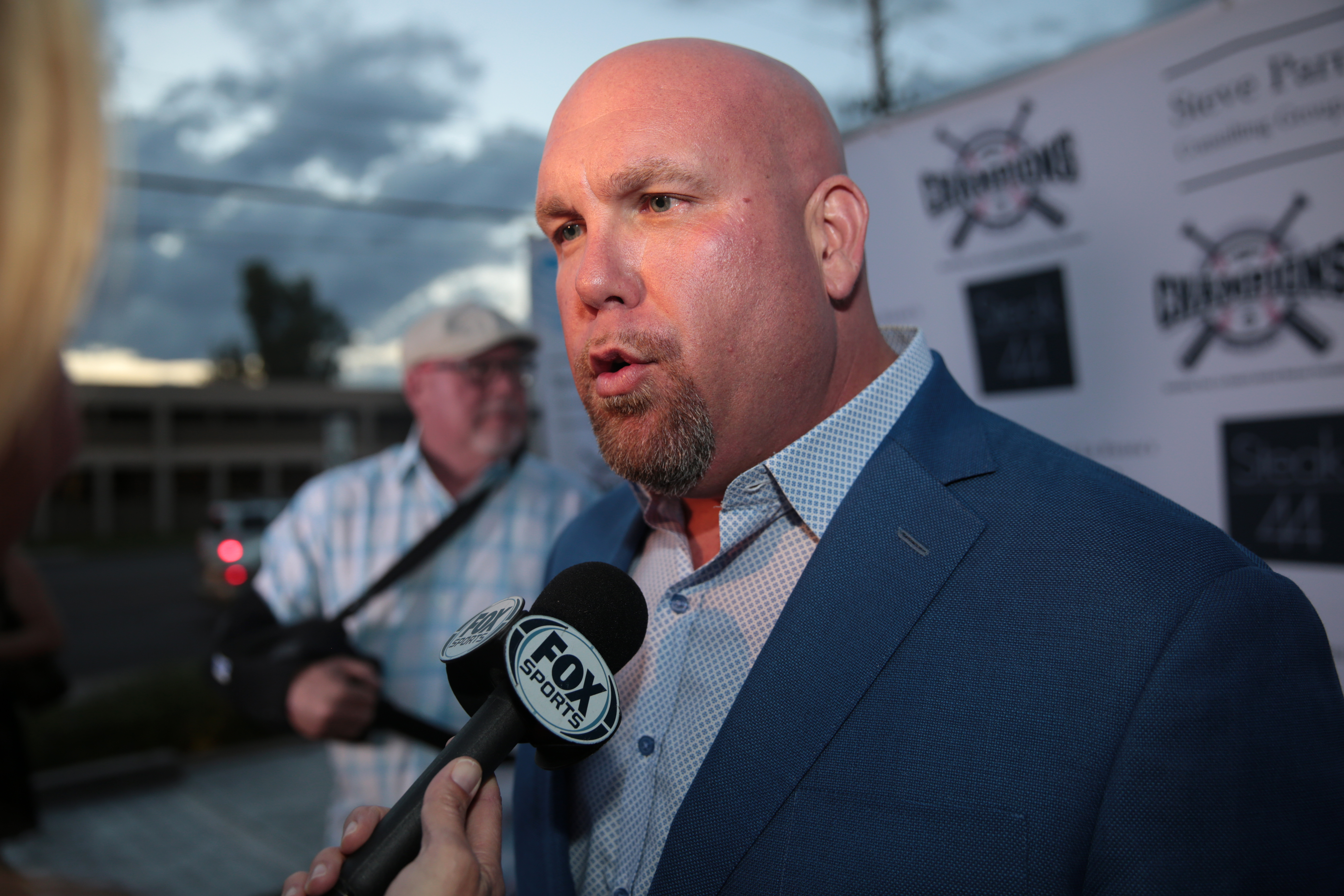 Steve Keim on the red carpet at the Dinner of Champions hosted by Tony La Russa in Phoenix, Arizona.